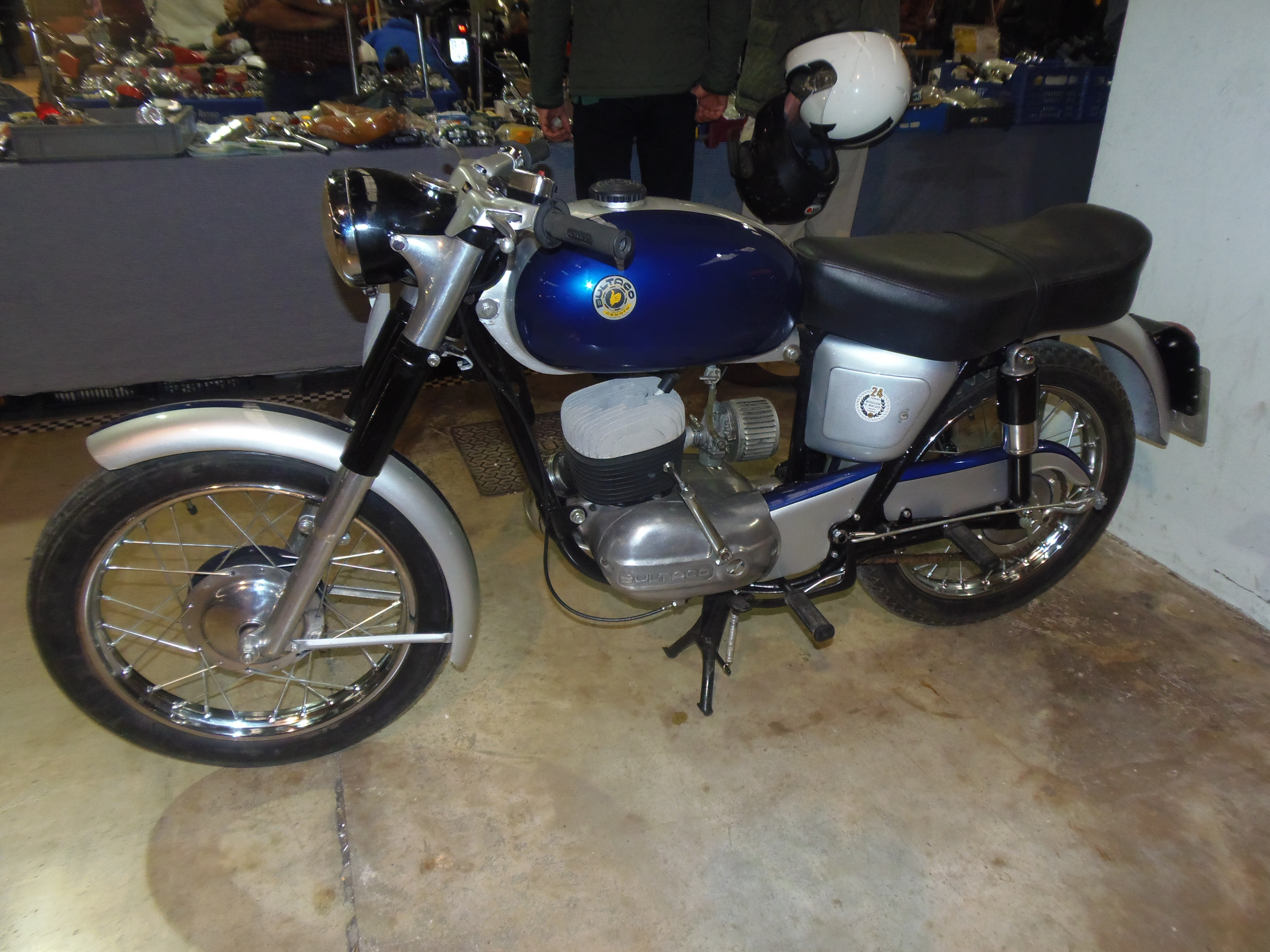 Bultaco Mercurio 155, 1964